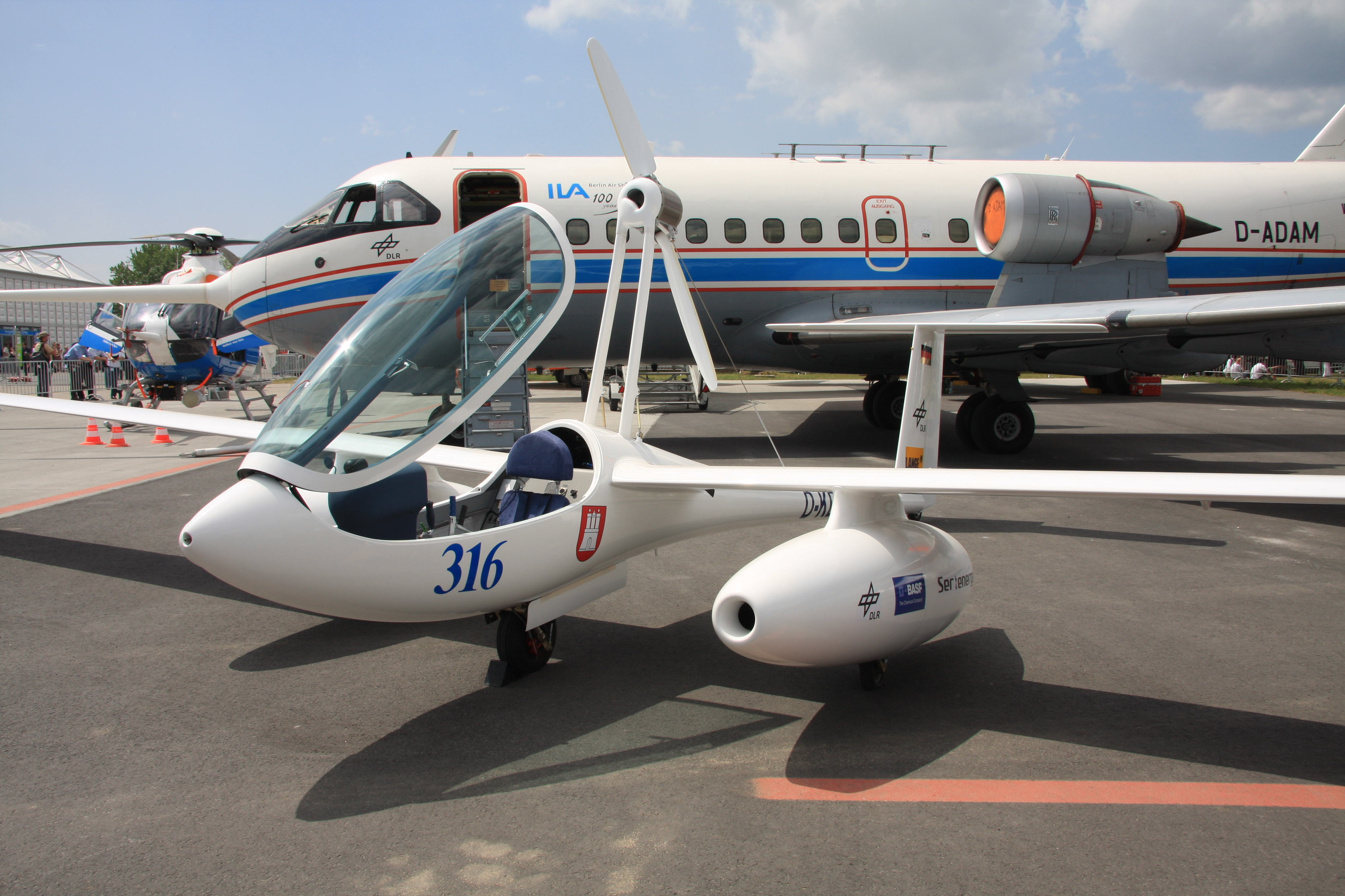 An Lange Antares 20E of the Deutsches Zentrum für Luft- und Raumfahrt powered with hydrogen, in the background a VFW 614 (picture taken during the International Air and Space Exhbition)